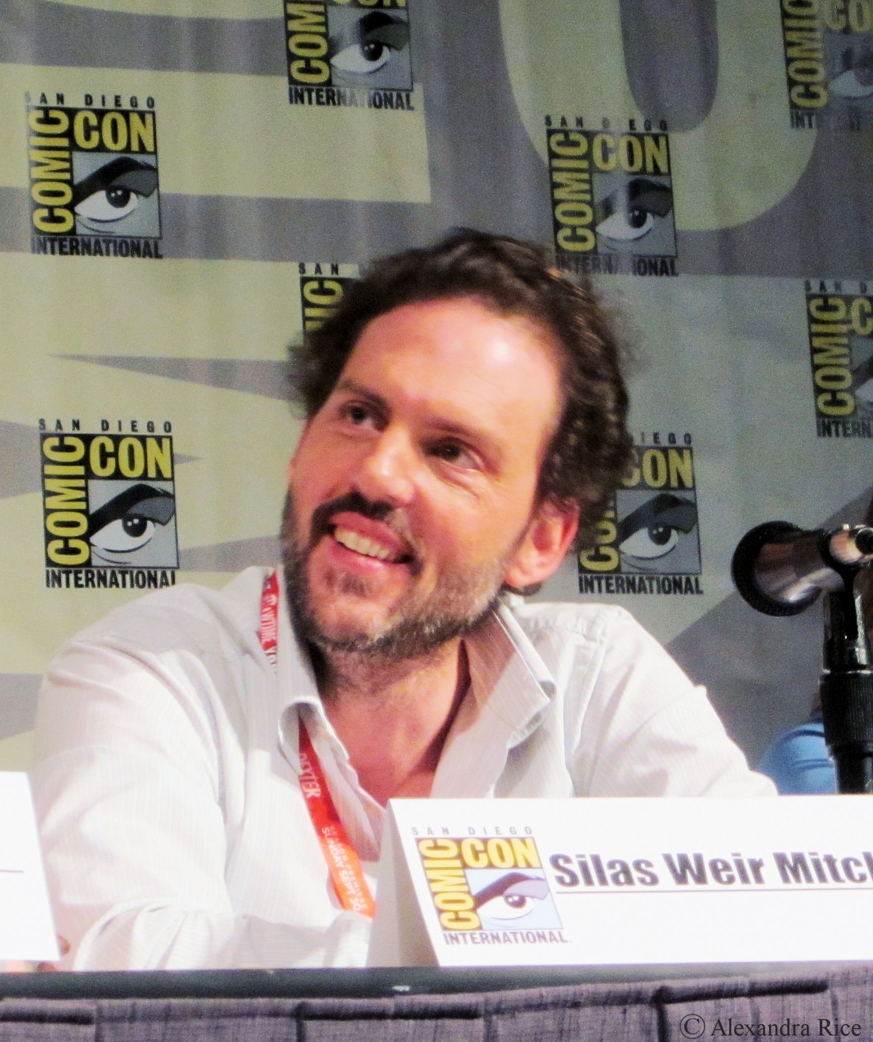 Silas Weir Mitchell during the Grimm panel at Comic-Con 2012